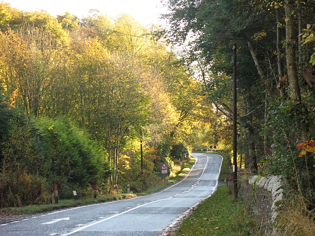 A85, Milton of Abercairny The Perth - Crieff road emerges from the Abercairny policy woodlands.